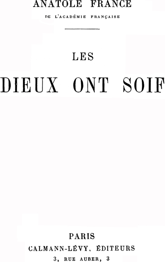 Cover of The Gods Are A-Thirst by Anatole France (1844-1924), 1912